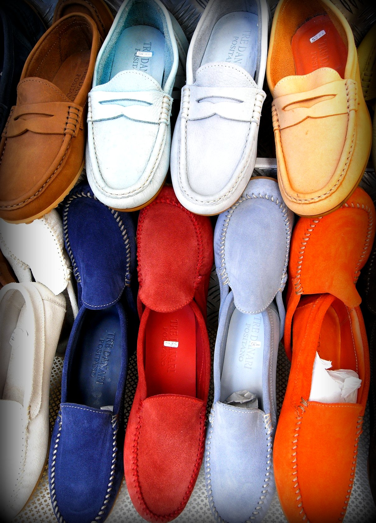 Loafer Shoes